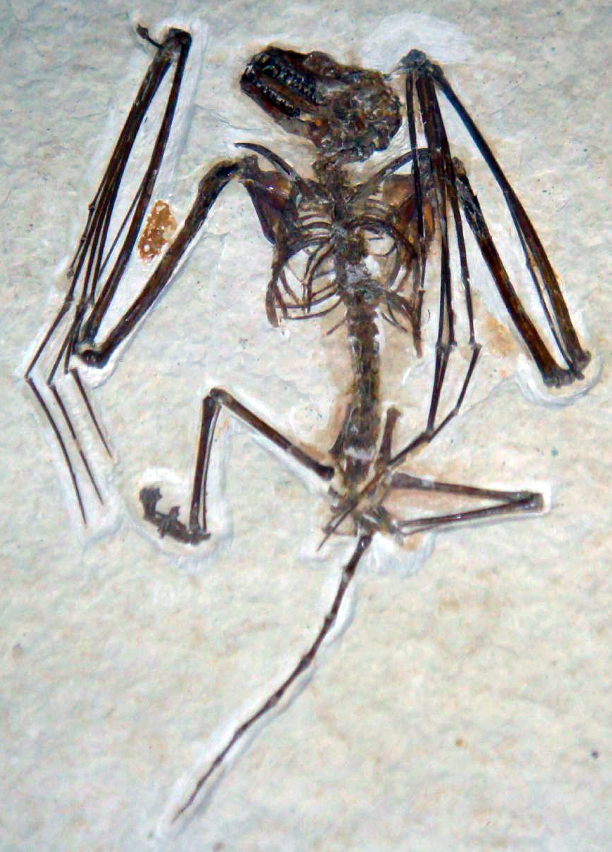 Icaronycteris, ROM